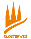 Klosterweg sign.